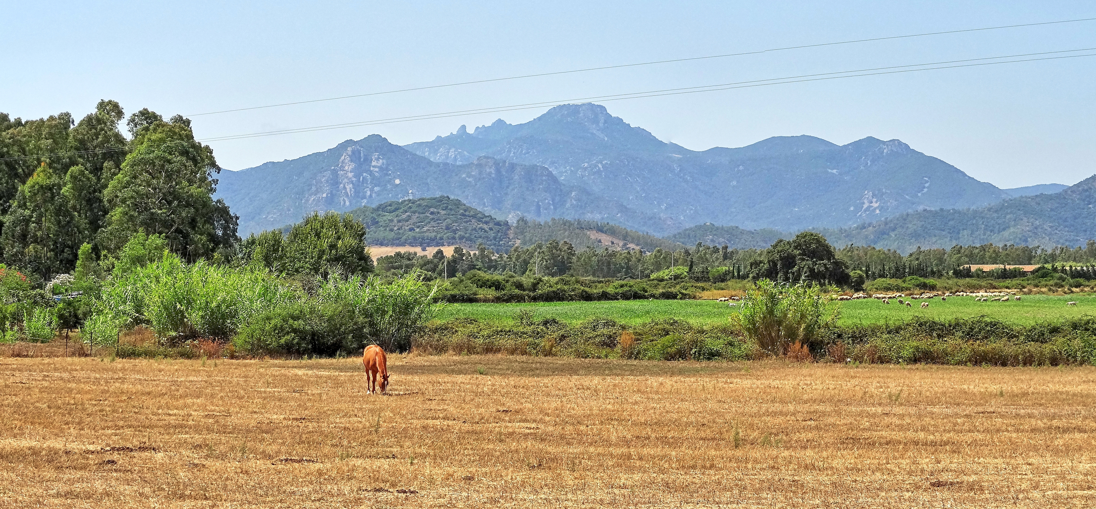 panoramic view of Monte Ferru (Ogliastra), as viewed from North (camera position: 39.81926102812895,9.669798028771993)